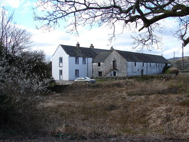 Southwick Home Farm, Caulkerbush Older (north) dairy buildings of Southwick Home Farm.